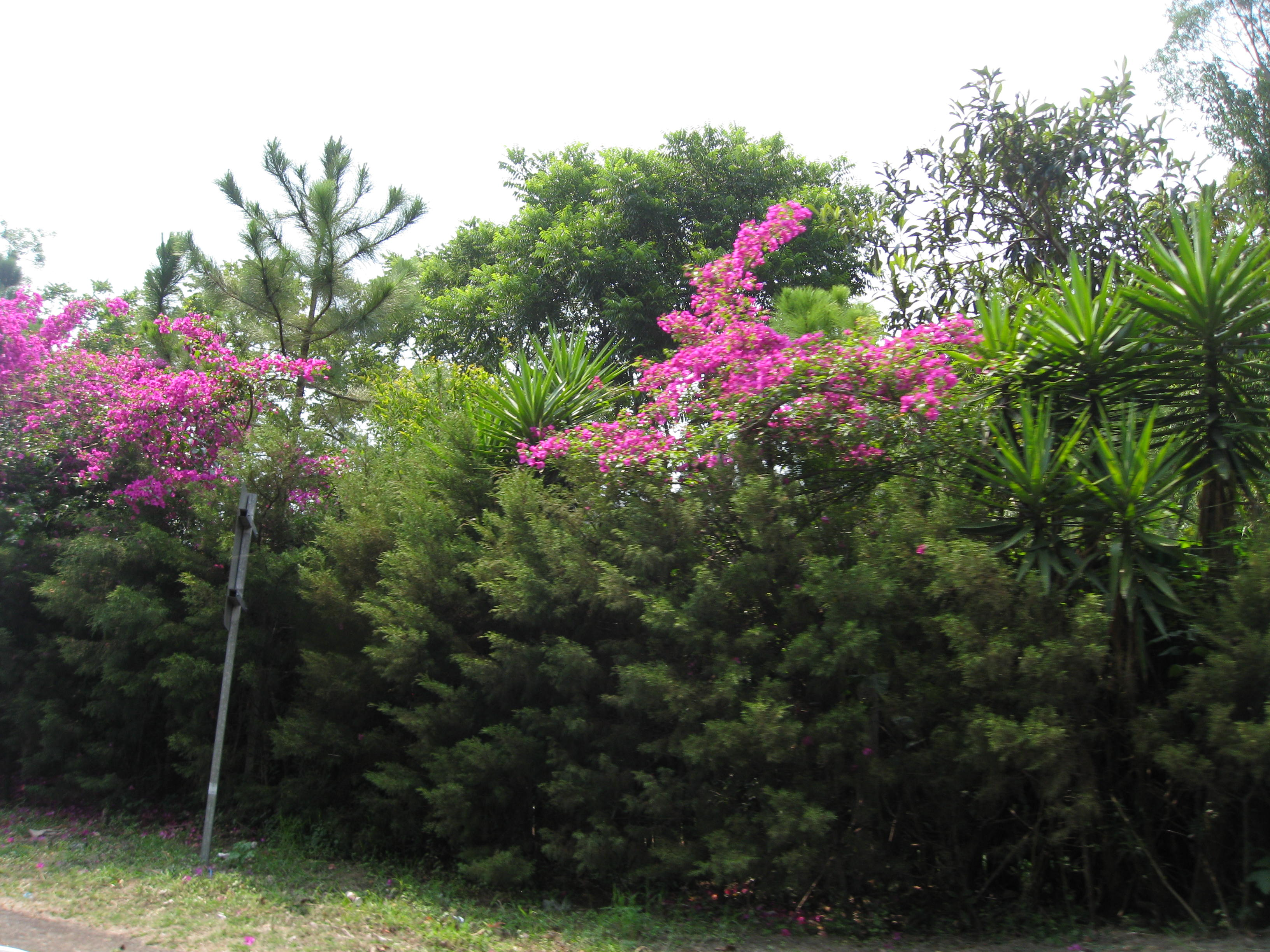 Climate allows plants and pine trees to develop all year long